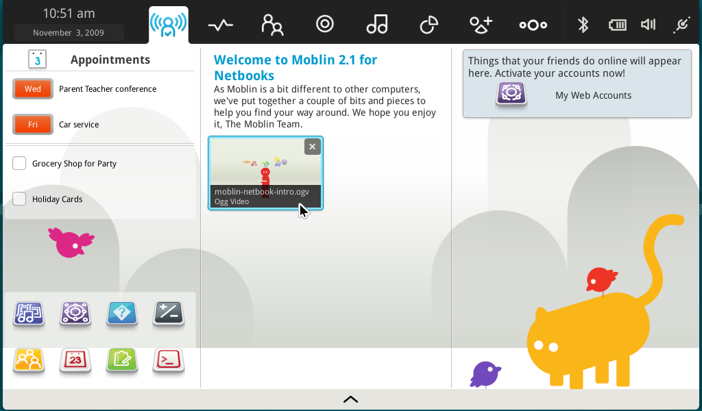 Screenshot of Moblin v2.1 notebook interface.